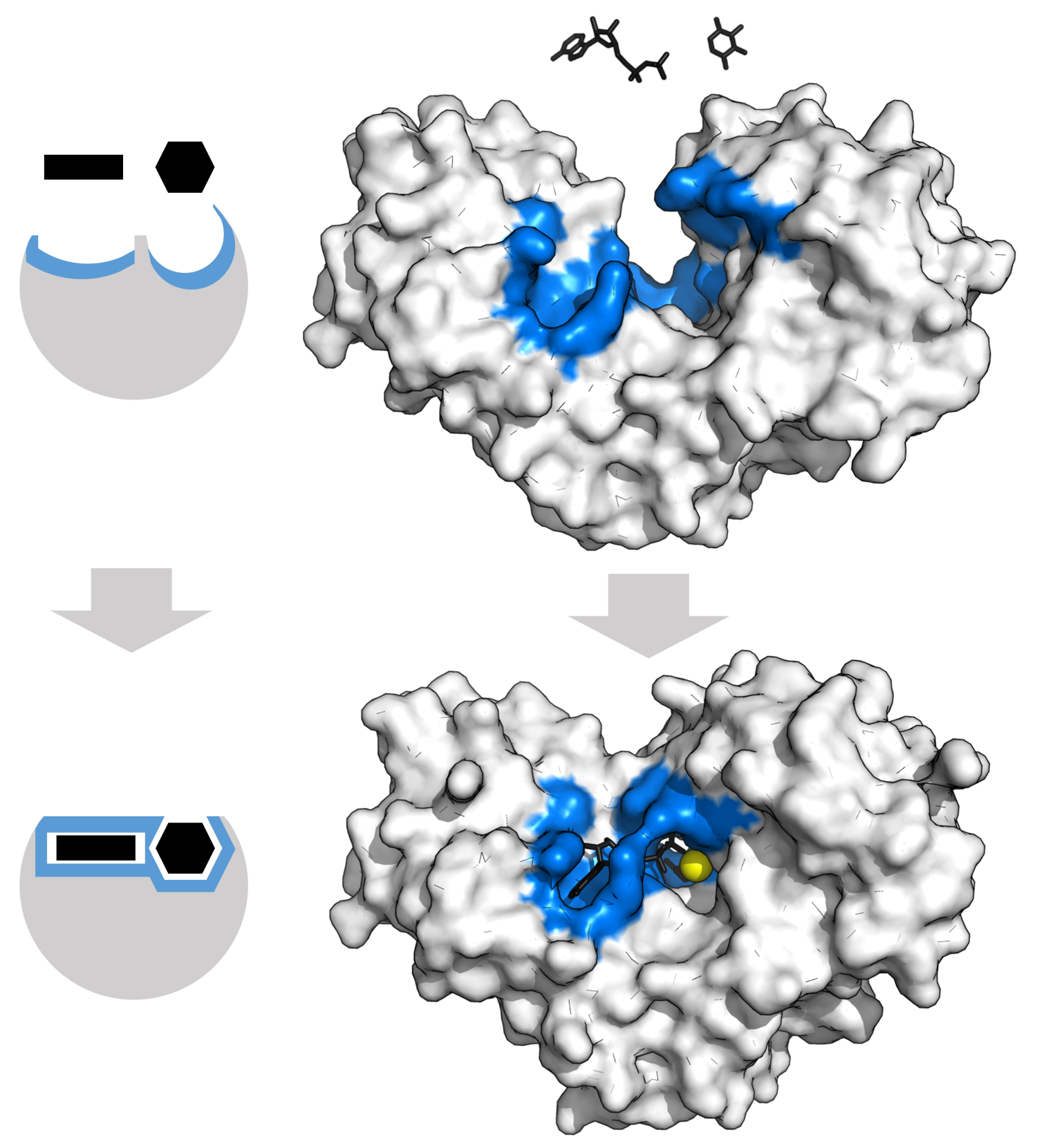 Enzyme changes shape by induced fit upon substrate binding. Hexokinase has a large induced fit motion that closes over the substrates adenosine triphosphate and xylose. Shown with binding sites in blue, substrates in black and Mg2+ cofactor in yellow (PDBs:2E2N,2E2Q).